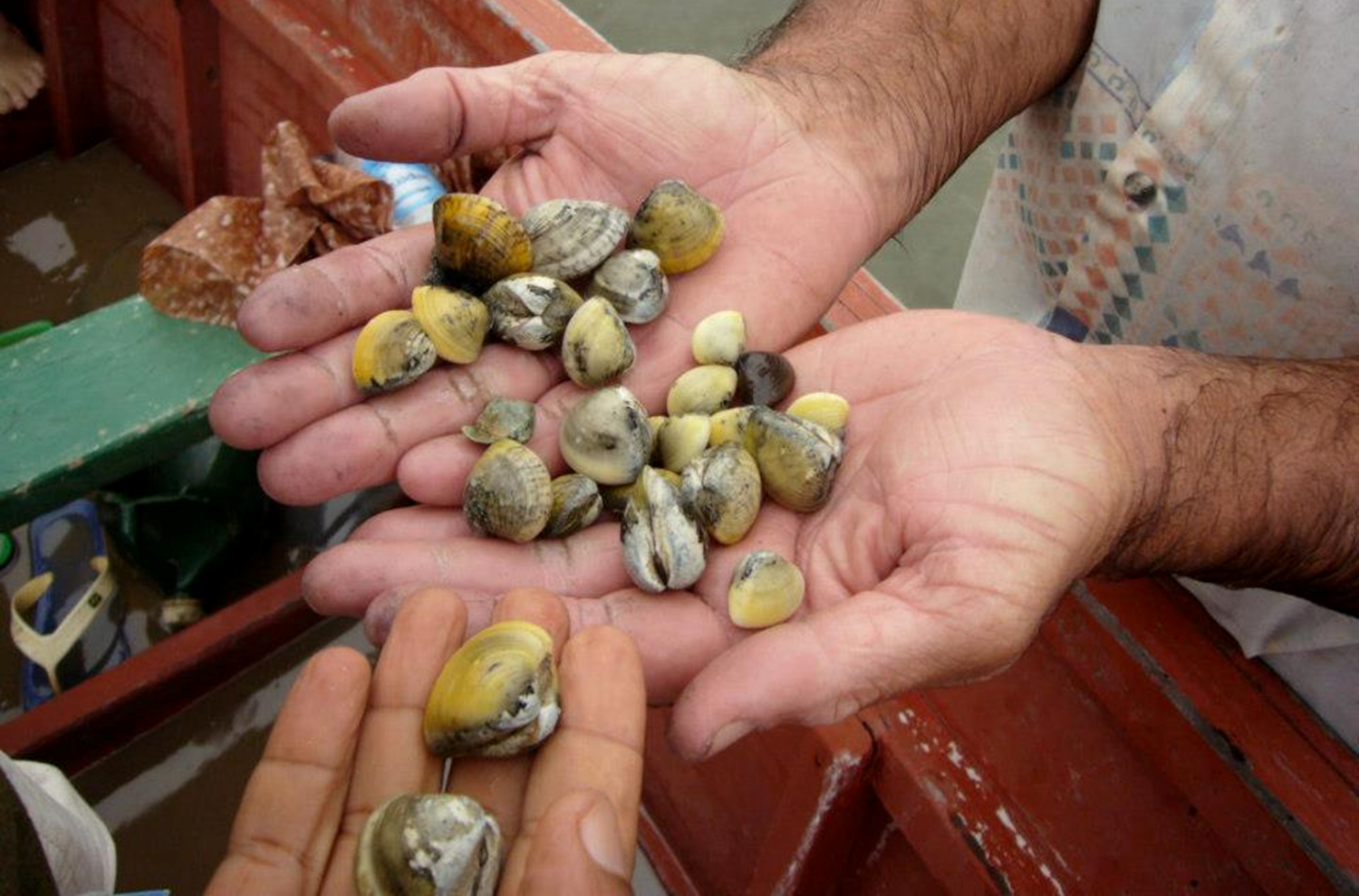 vongole in the hands